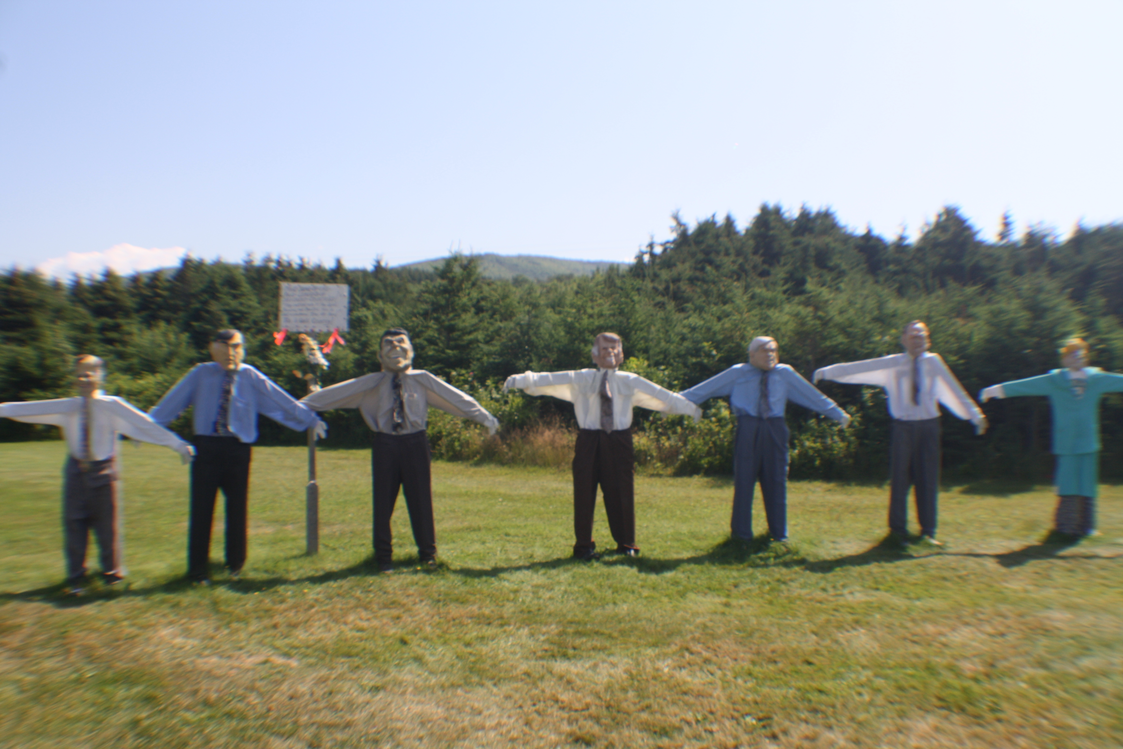 Scarecrows representing world leaders at Joe's Scarecrow Village near Cheticamp, Nova Scotia, Canada.